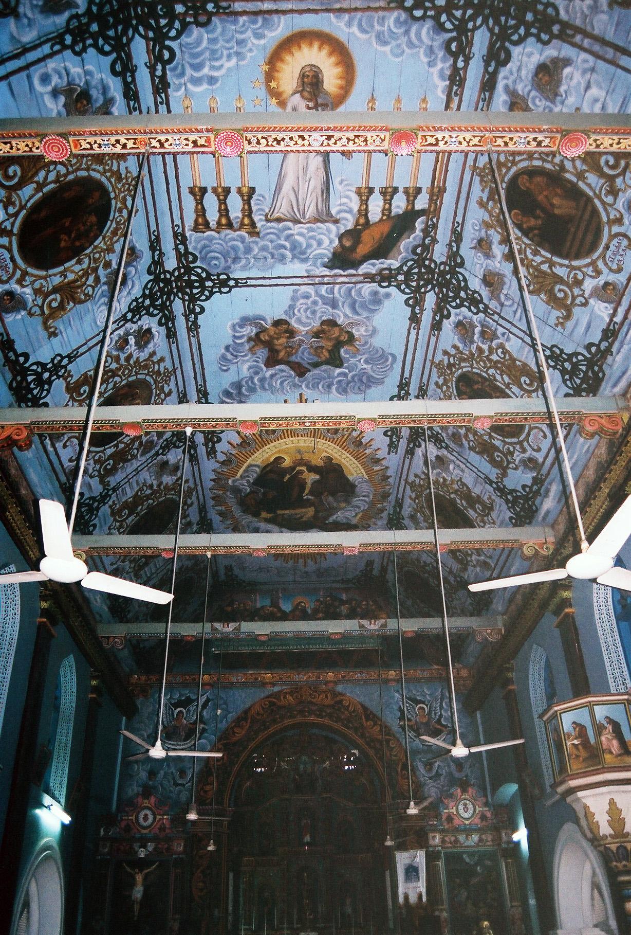 Interior of the Palayur Church, the oldest Christian church in India and one of the seven founded by St Thomas the Apostle in 52 AD.